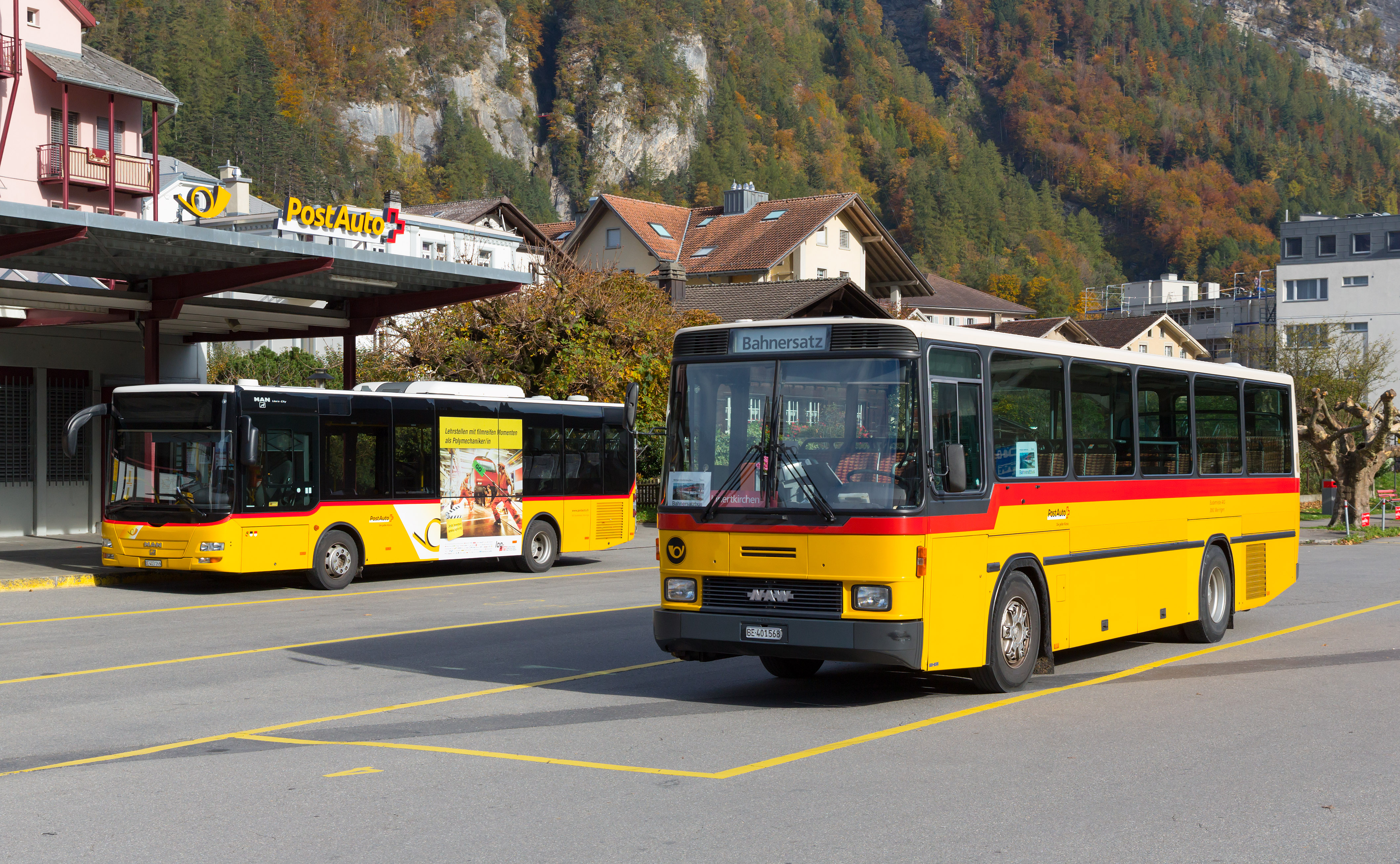 NAW BH 4 operated by Grindelwald Bus as a train replacement. Picture taken in Meiringen, Switzerland. NAW BH 4 der Grindelwald Bus im Einsatz als Bahnersatz. Aufgenommen in Meiringen, Schweiz.